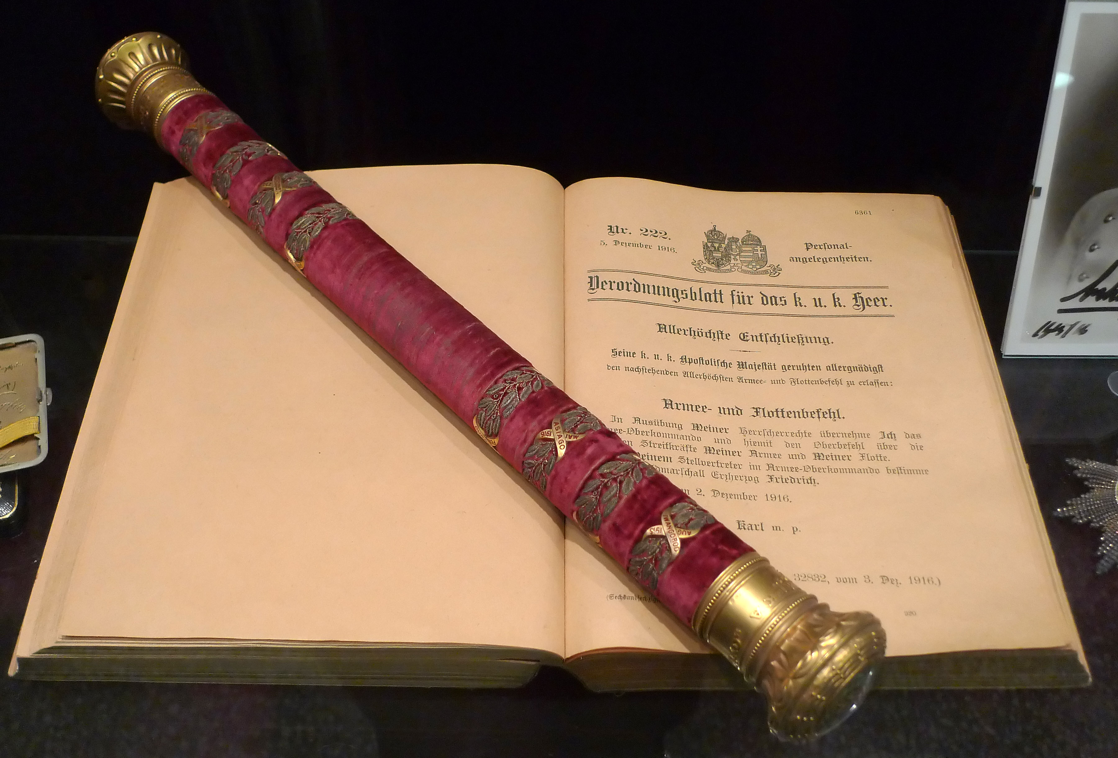 Marshal's baton of Archduke Friedrich, Duke of Teschen. Heeresgeschichtliches Museum Wien.